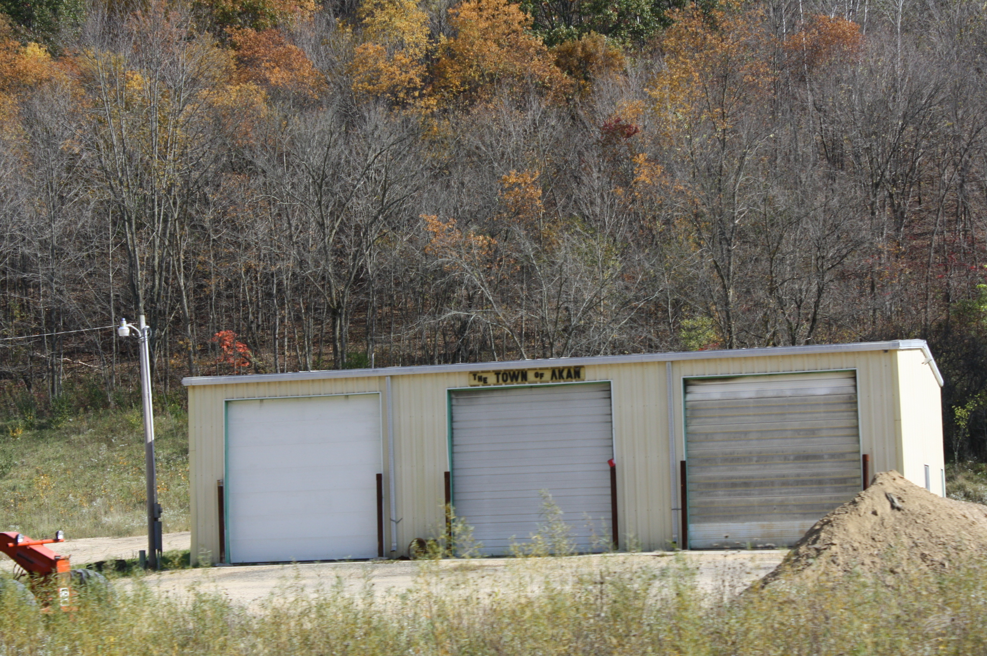 The town hall for Akan, Wisconsin along Wisconsin Highway 171.